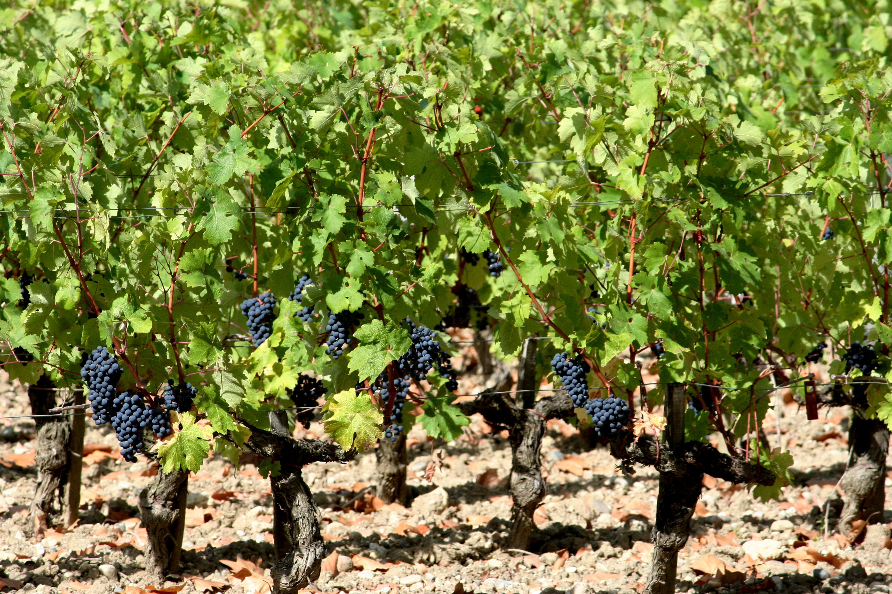 At the estate of the Bordeaux producer.